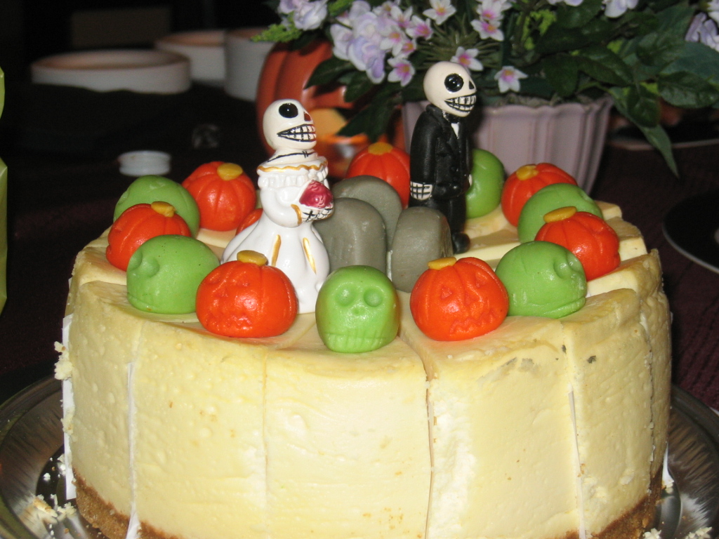 Cheesecake for Halloween